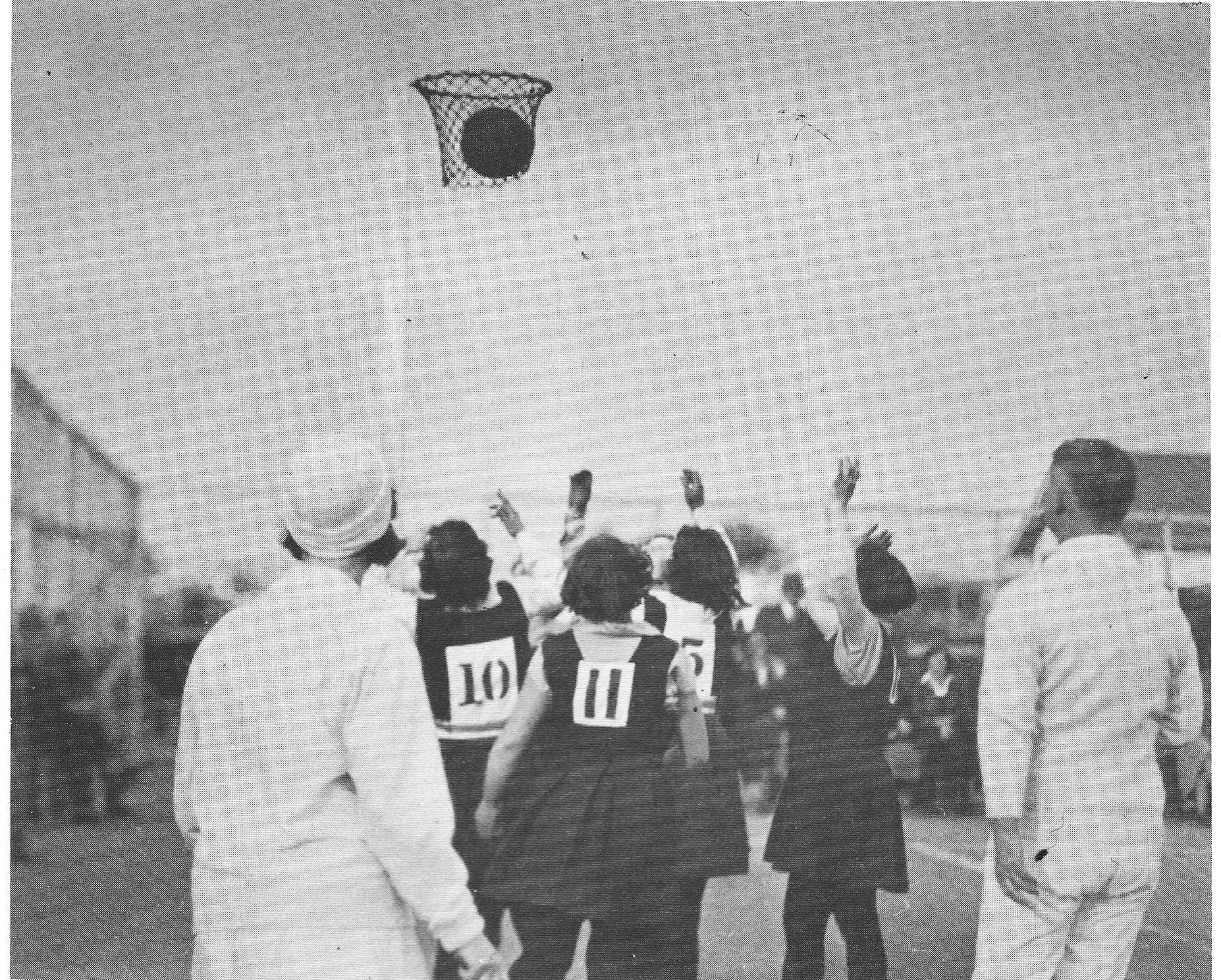 Picture from 1920 New Zealand. Caption from source: No doubt about this goal scored in a game in the late 1920s. Note the male umpire, the headgear of the woman official, and the number 11 worn by one player.